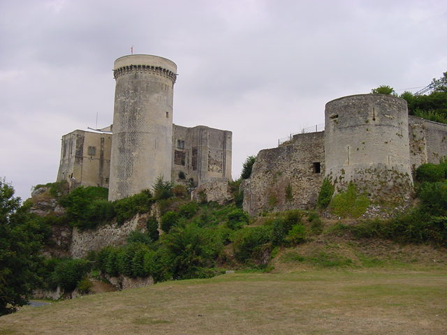 Falaise castle, Calvados, France